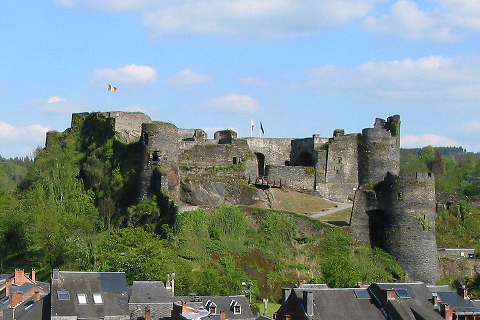 La Roche-en-Ardenne (Belgium), ruins of the castle.